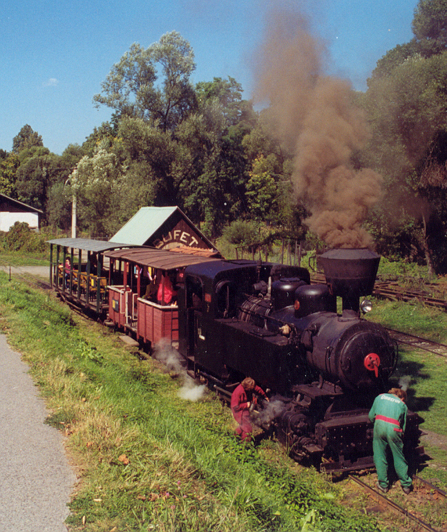 ČHŽ train is prepaired in Hronec station to way. There is steam locomotive ČKD 760/90d Author: Stanislav Jelen